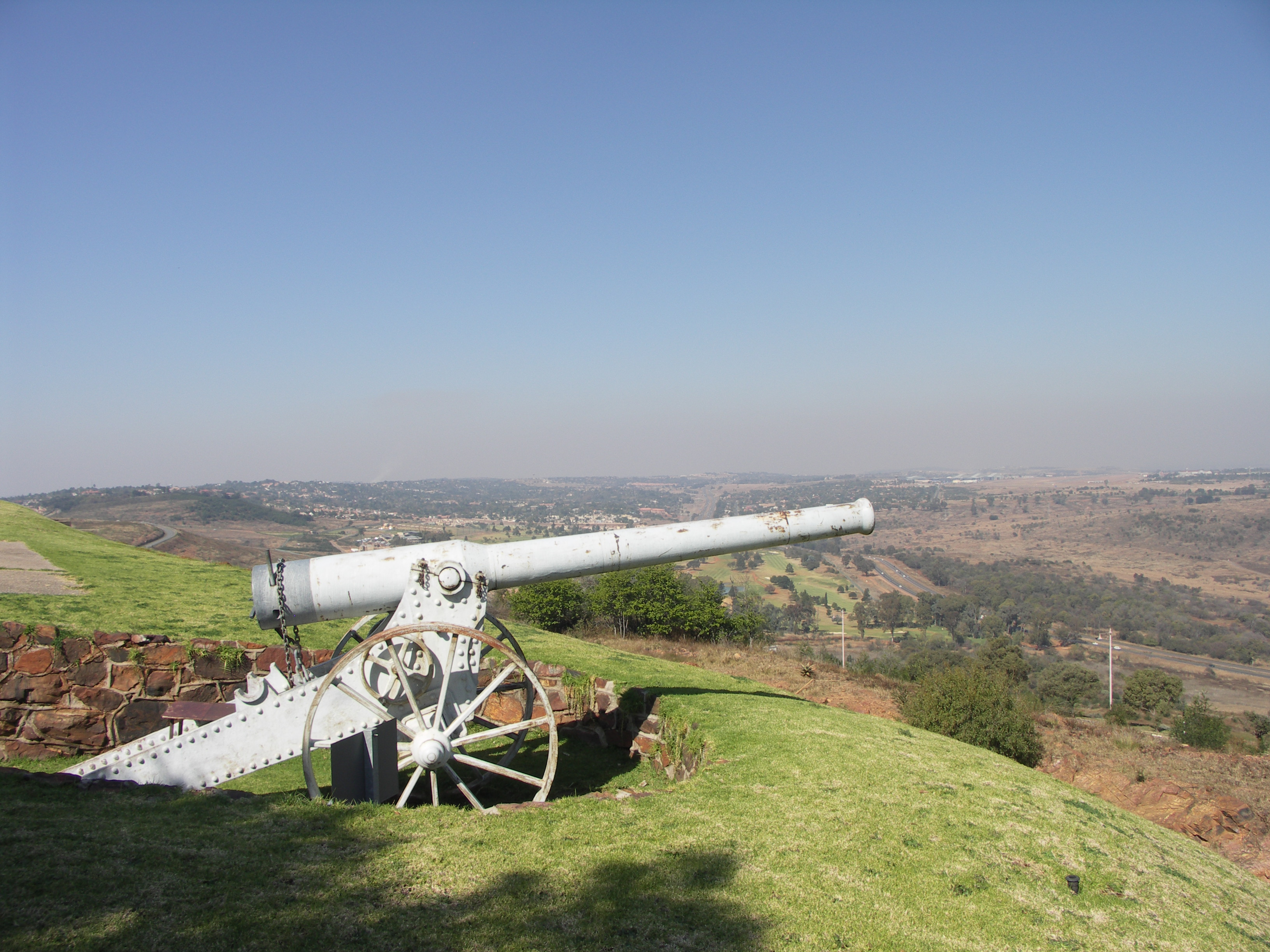 Replica of a 155 mm Creusot Long Tom canon at Fort Klapperkop outside Pretoria. The replica was manufactured in 1985 by the Bias Foundry in Baberton, South Africa